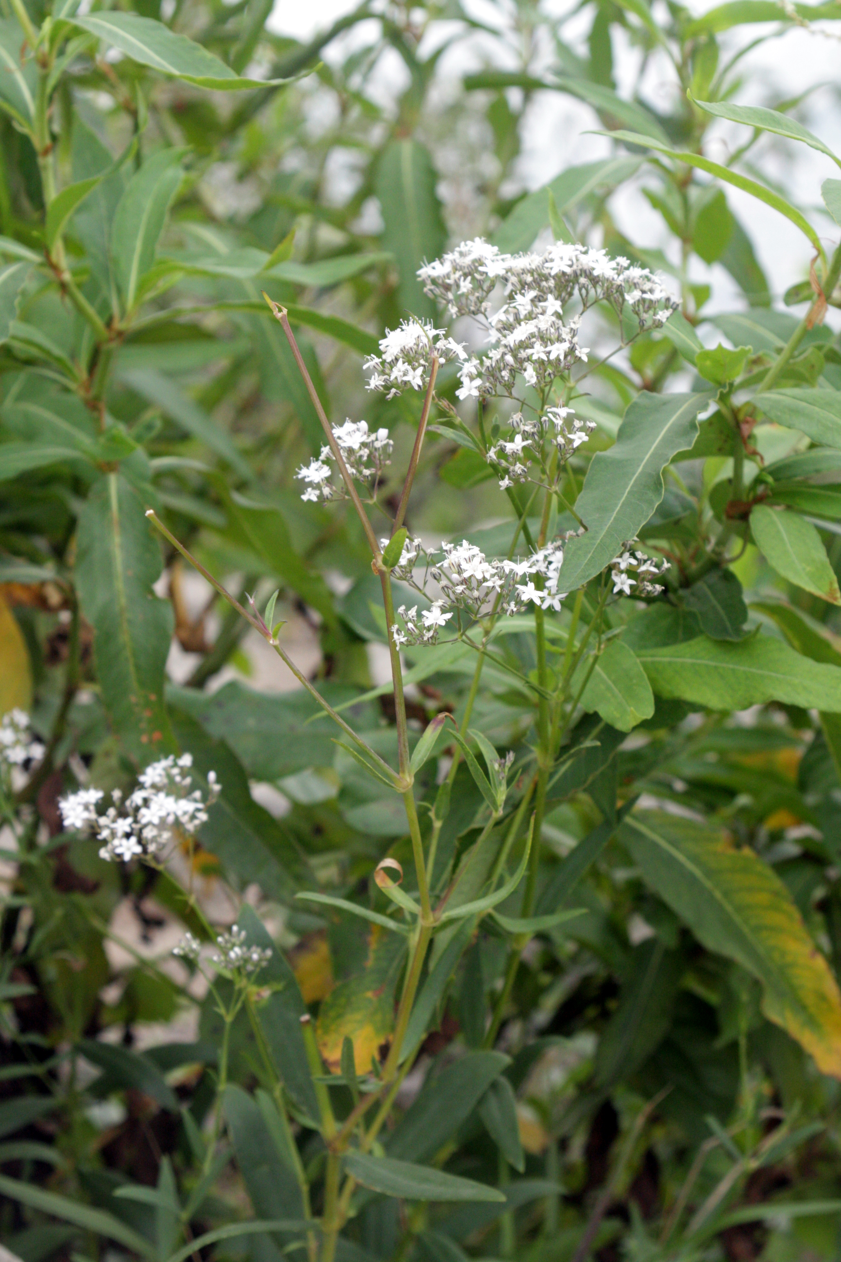 Gypsophila oldhamiana in Gyeyangsan, Korea